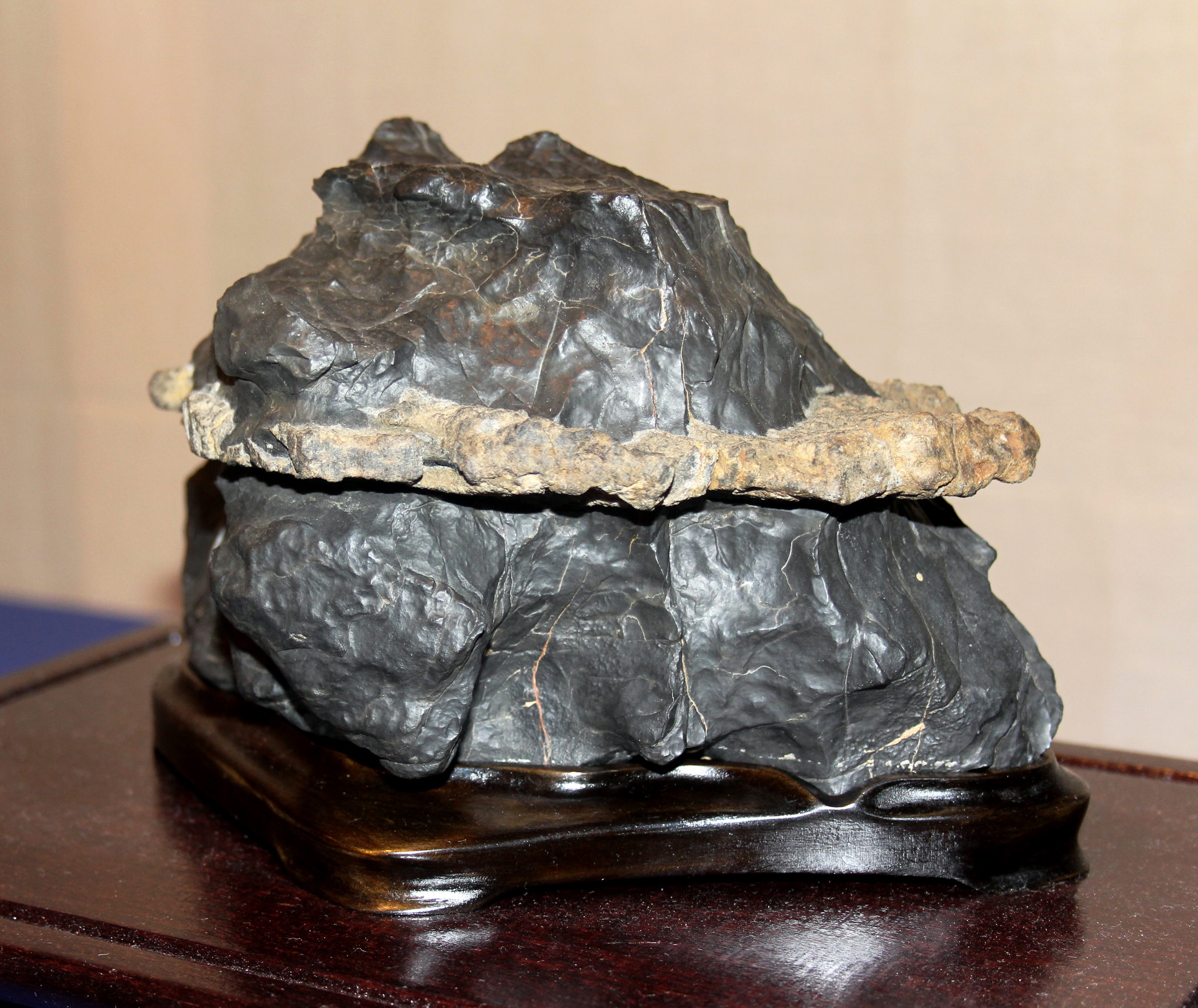 One exhibit on International exhibition "Suiseki and Shangshi" in Troja Castle, Prague, Czech Republic 2011